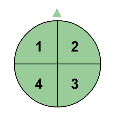 A helicopter rotordisk parted into four pieces